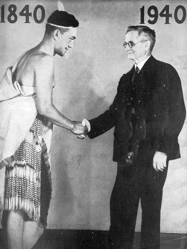 Prime Minister Michael Joseph Savage shaking hands with a Maori man at the New Zealand Centennial Exhibition in 1940.